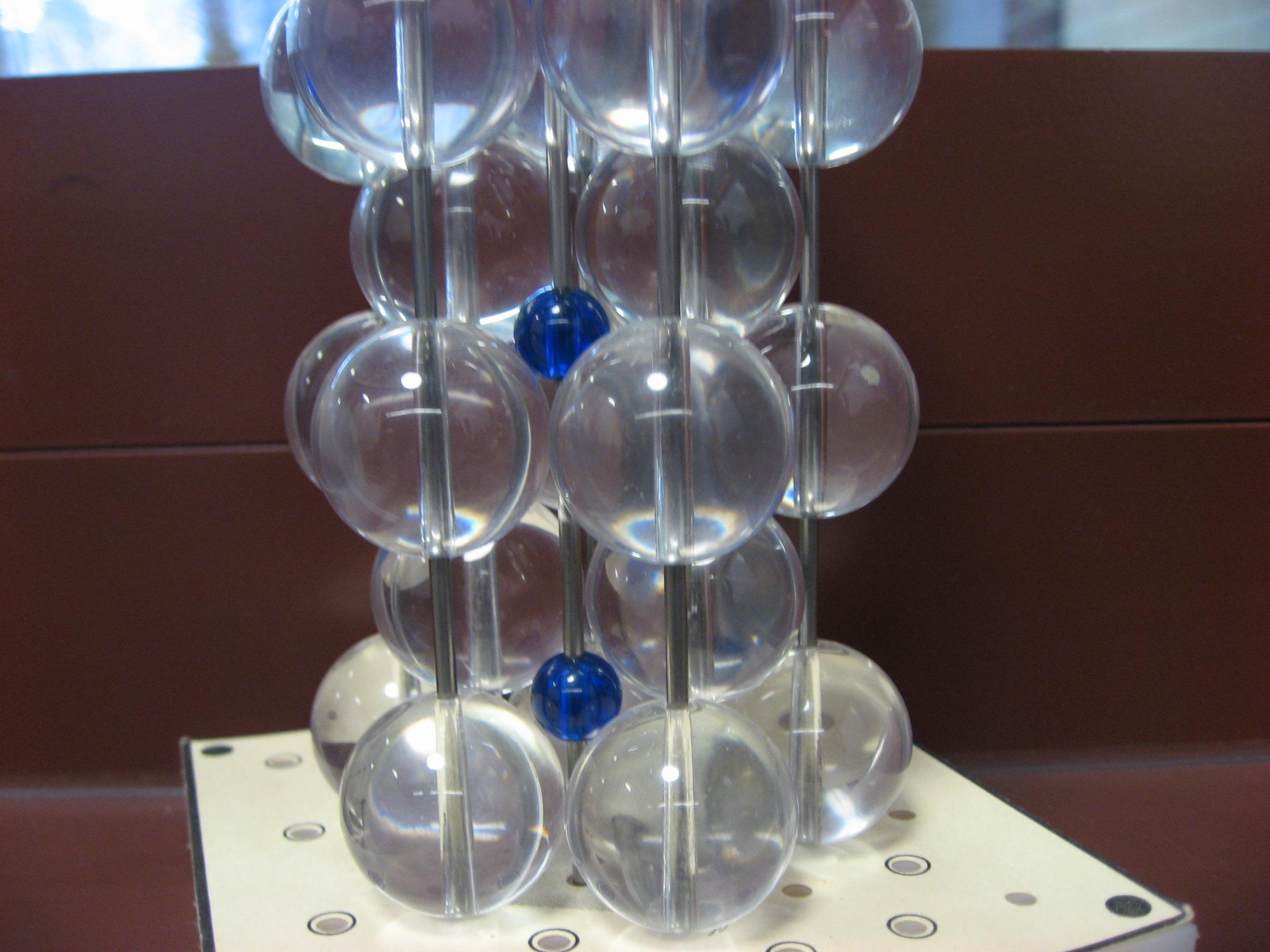 structure